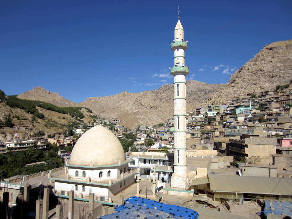 Travel between Dohuk and Erbil via picturesque Akre or Aqrah allows one to avoid the dangerous city of Mosul.